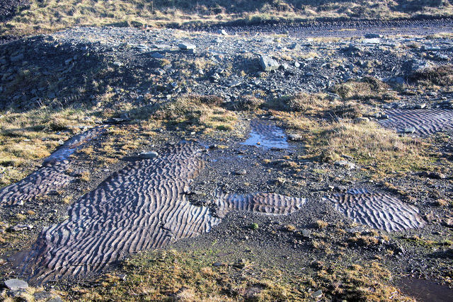 Fossilised sand waves Seen in an old quarry near the top of the Cliffs of Moher, these fossilised ripples show that the area was once below the sea; amazingly it is now over 500 feet above sea level.